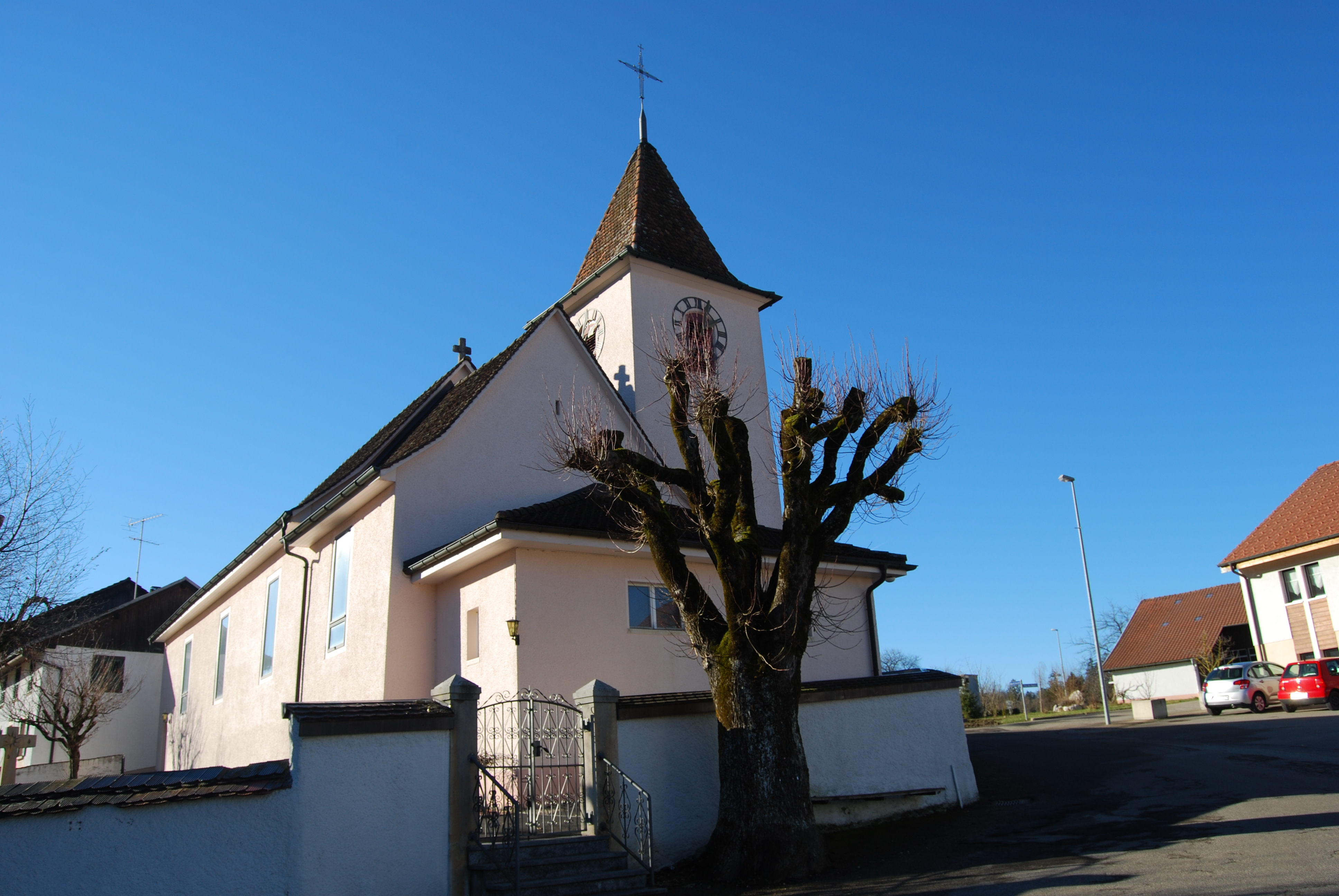 Church of Rebeuvelier, canton of Jura, SwitzerlandEsperanto: Preĝejo de Rebeuvelier, Kantono Ĵuraso, Svislando